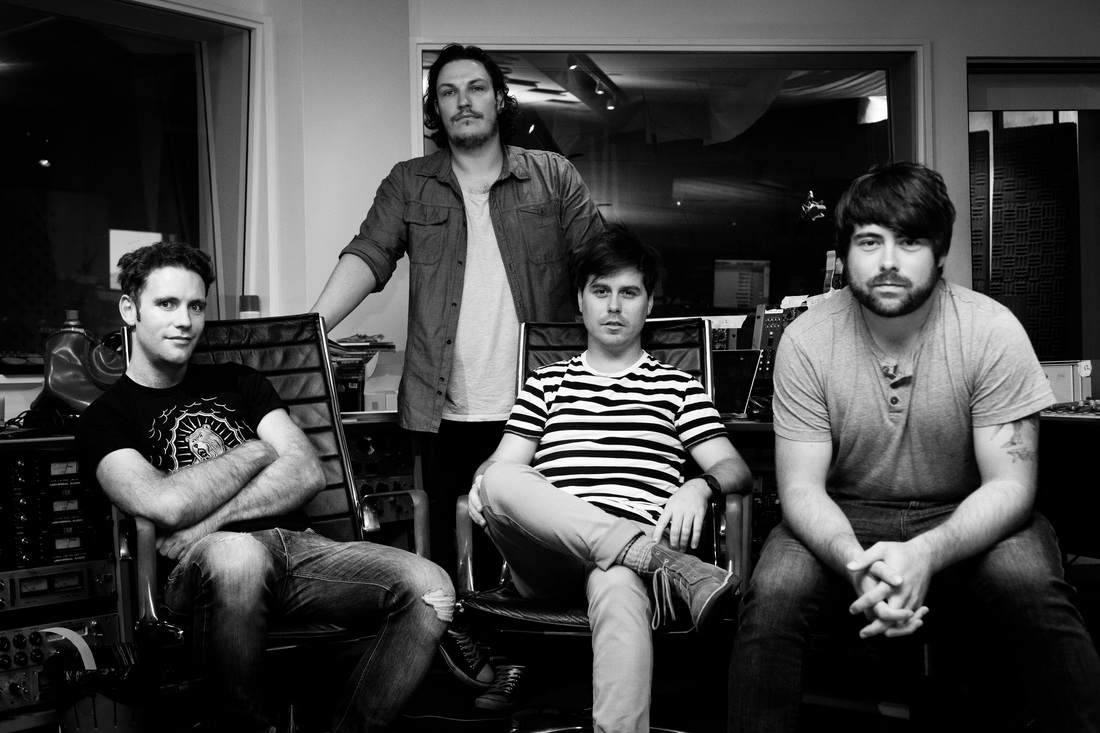 Photo taken with an iPhone of the Hungry Kids of Hungary while recording their second album at Albert's Studios in Sydney.